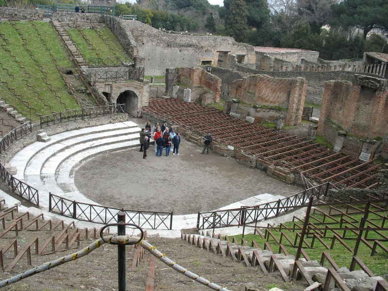 The Great Theatre of Pompeii prior (or during) the reconstruction of a stage.